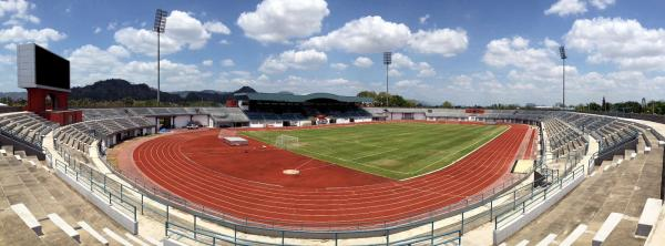 Stadium Tuanku Syed Putra (edit by cikgu HeHe)